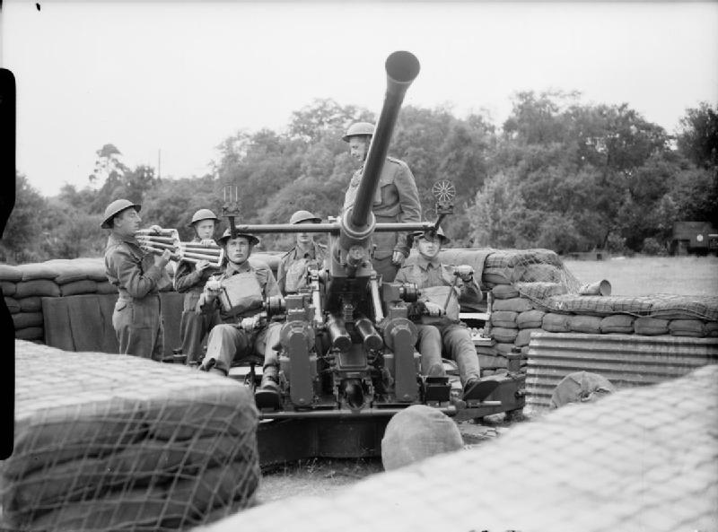 The British Army in the United Kingdom 1939-45 40mm Bofors gun and crew at Stanmore in Middlesex, 28 June 1940.